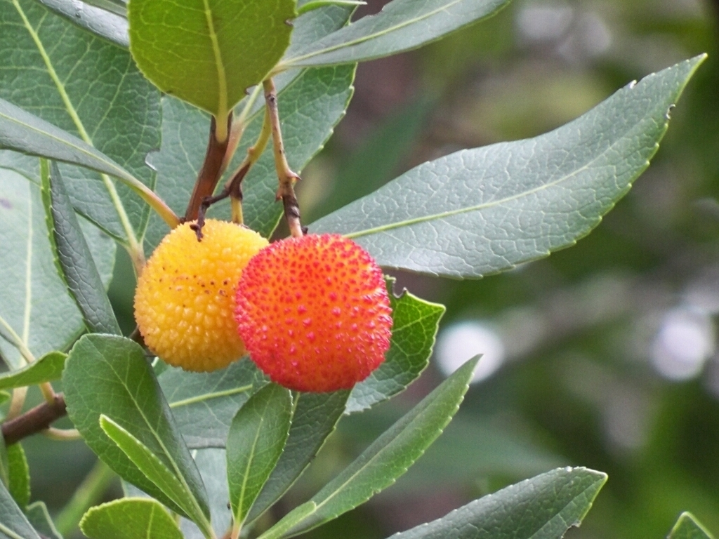 Fruits of strawberry tree (Arbutus unedo).